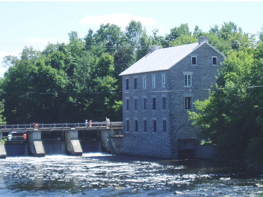 Watson's Mill on the Rideau River, located in the community of Manotick, in July 2005. Ottawa, Ontario, Canada.